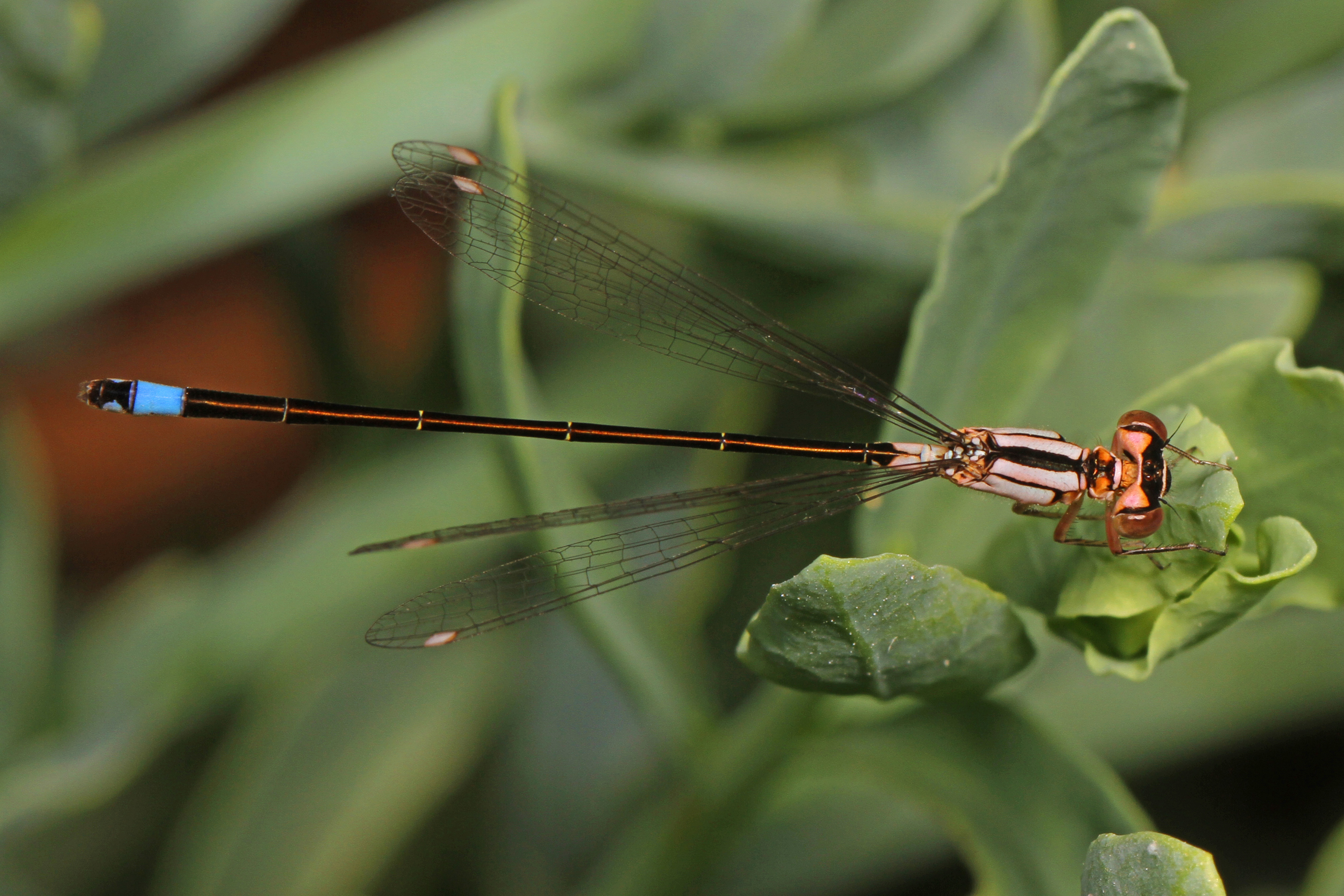 Pacific Forktail - Ischnura cervula, Pahranagat National Wildlife Refuge, Alamo, Nevada